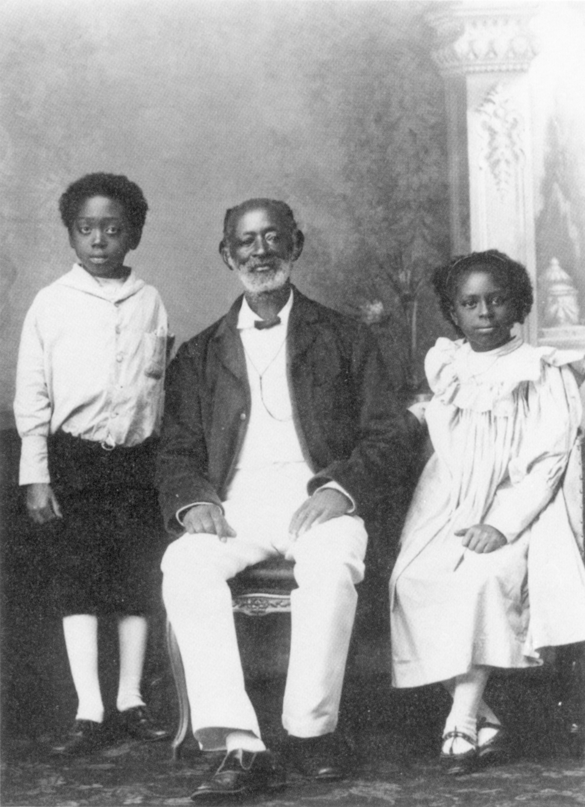 Aquasi Boachi with his children on Java. Left Aquasi junior and right Quamina Aquasina.